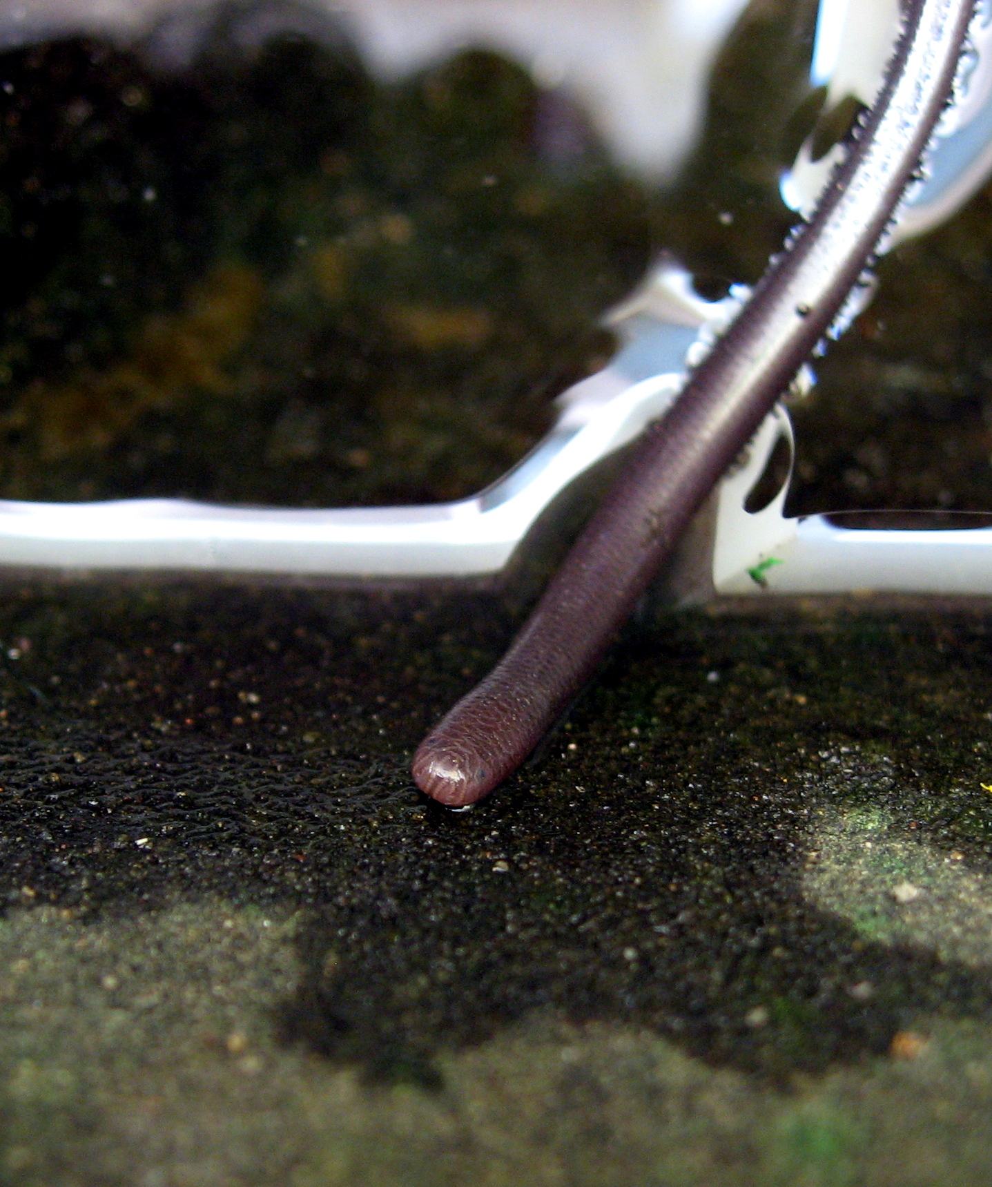 Head of an adult Flowerpot Snake Covered eyes can be seen as tiny dots.